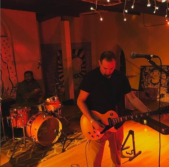 Underlined Passages performing at New Jersey Indie Rock Fest.